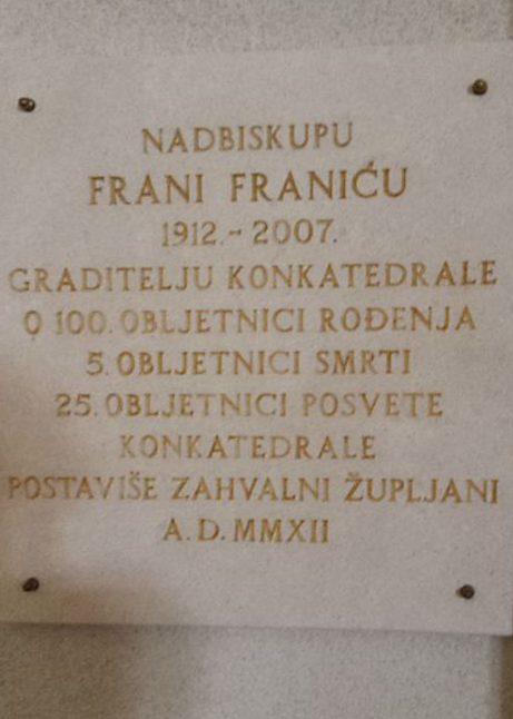 Co-cathedral St. Peter Split, Commemorative Plaque